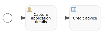 Snippet of a Flowable BPMN model